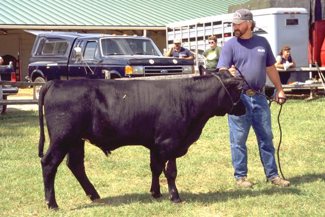 Angus cattle 19 from Angus cattle 19 thumbnail Image Number: 01cs1269 CD3945-073 Showing angus steer at the Prince George?s County fair. USDA Photo by: Bill Tarpenning